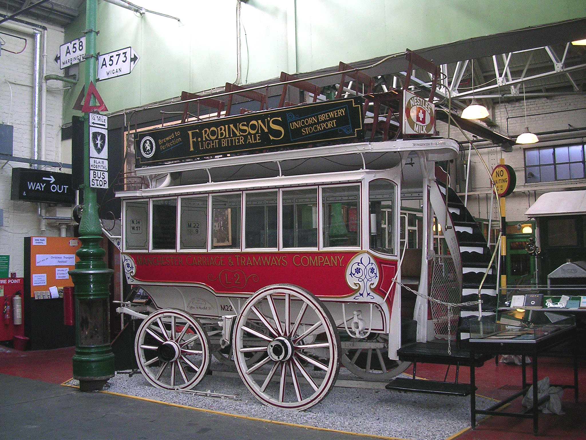 Horse drawn bus